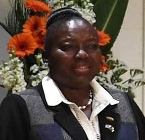 President Reuven Rivlin meeting with Parliament Chairman's from Africa, Wednesday, December 6, 2017. Photo Credit: Mark Neyman / GPO.